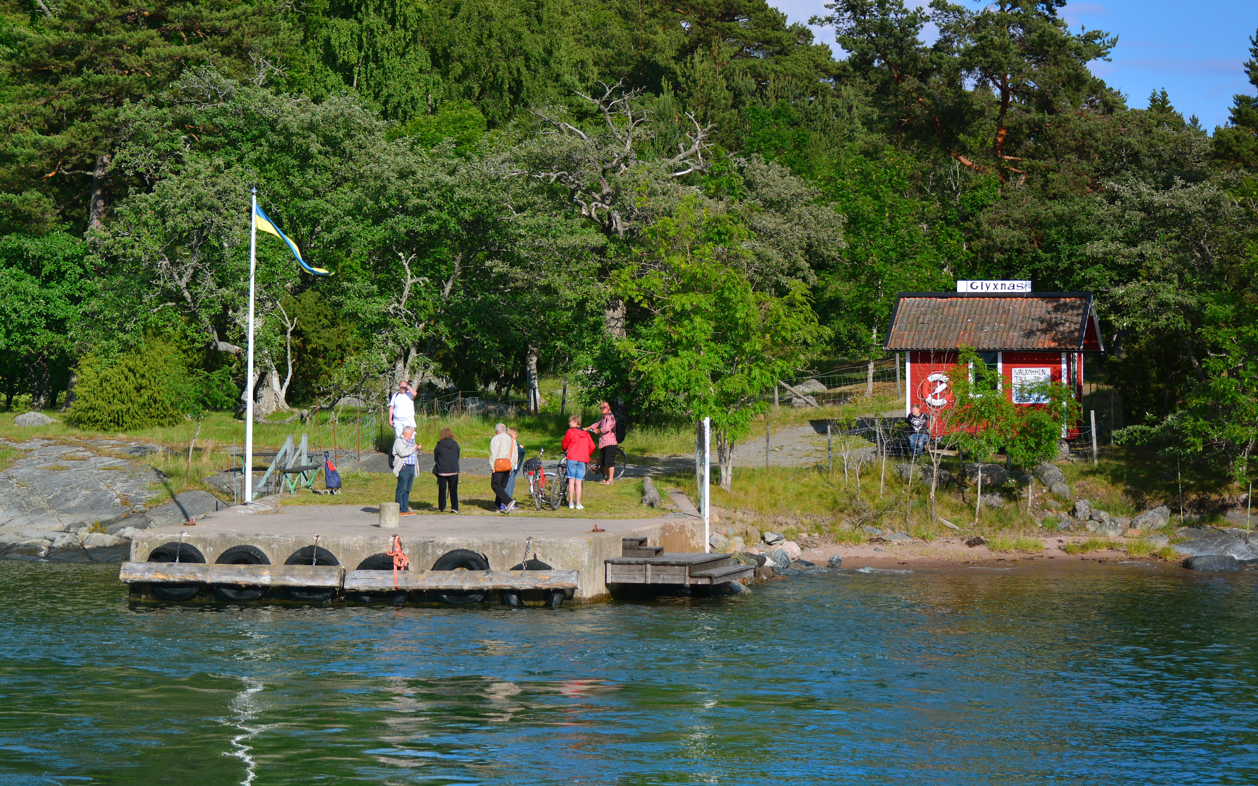 Landing stage in Glyxnäs on Blidö in Stockholm archipelago.